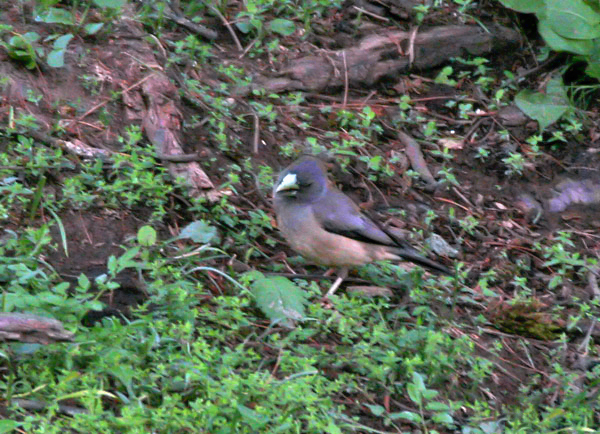 Black-&-Yellow Grosbeak Mycerobas icterioides in Kullu District of Himachal Pradesh, India. We were fortunate to see this lovely bird at 5 to 6 points during the Sar Pass trek. It's call of 'pir-riu pir-riu pir-riu........' was really wonderful. It will sit at some distant canopy in the early mornings & late evenings & give some good views to all the trekkers from camps with Binocolors. Early morning a number of these birds (along with females which are quite dull in comparison) were seen feeding at ground at Bhandak Thaatch (8000 ft.). Only to fly away on the adjustant trees on approach.